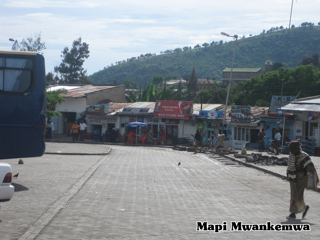 The main bus stop in the town of Mbeya, Tanzania